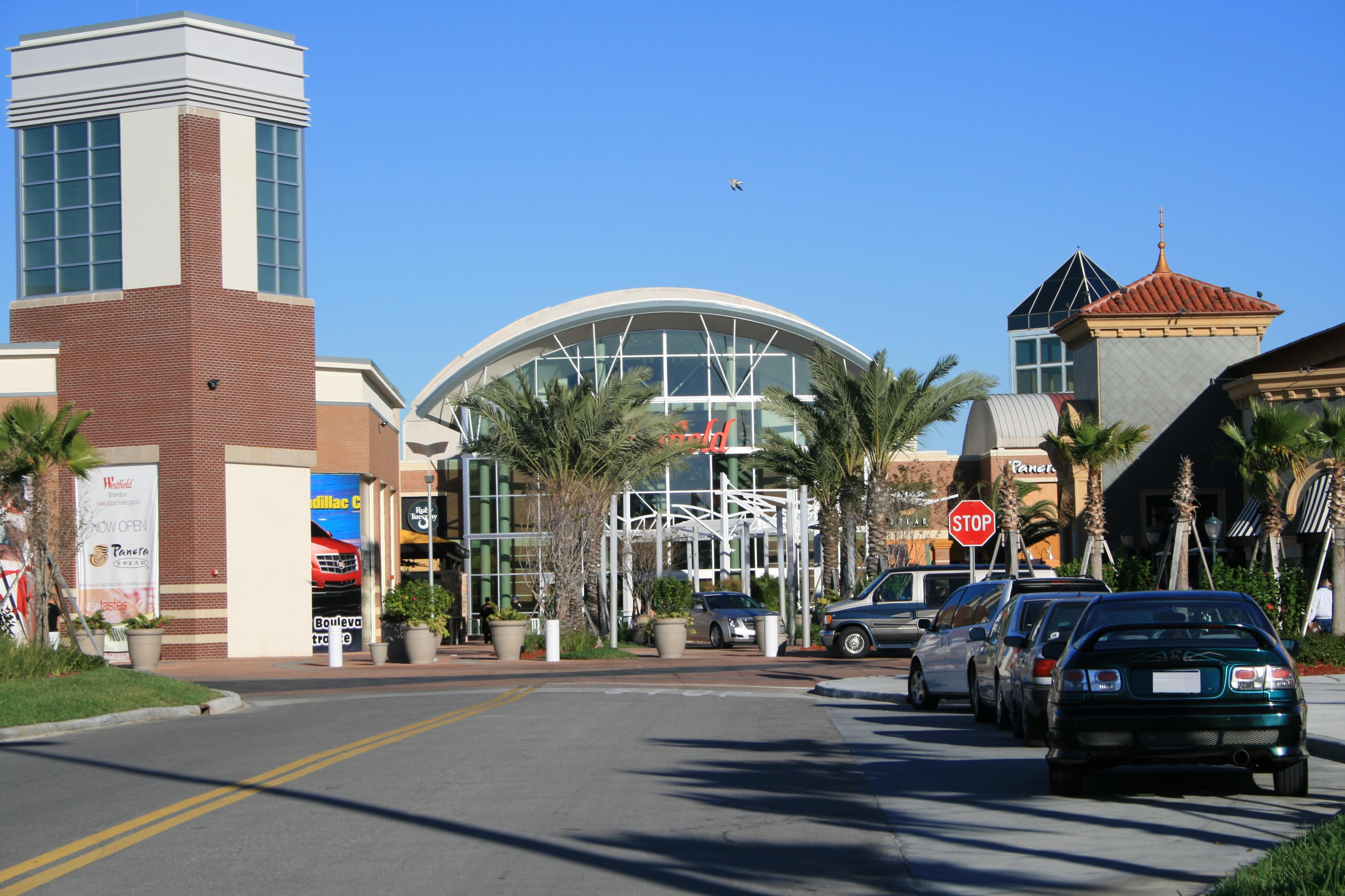 Westfield Shoppingtown in Brandon, east of Tampa.